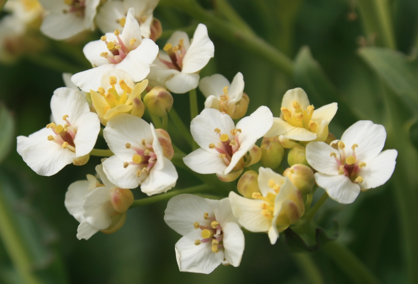 Crambe maritima): Flowers.